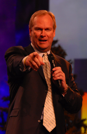 Dan Clark speaks at Million Dollar Round Table. He is speaking into a microphone and pointing to the crowd.